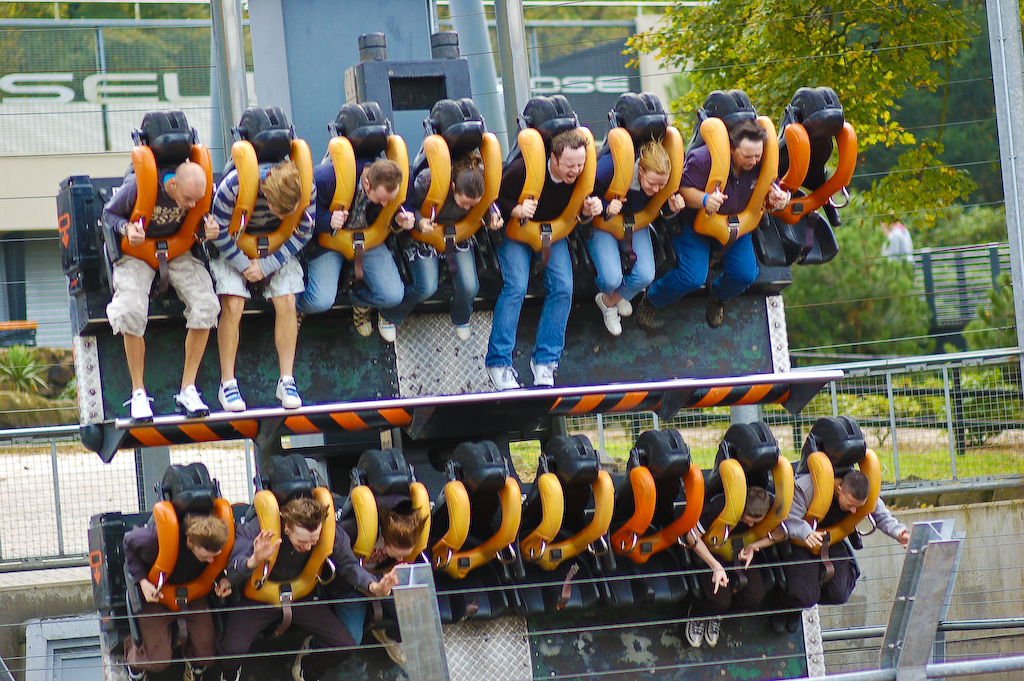 Rollercoaster at Alton Towers, England.